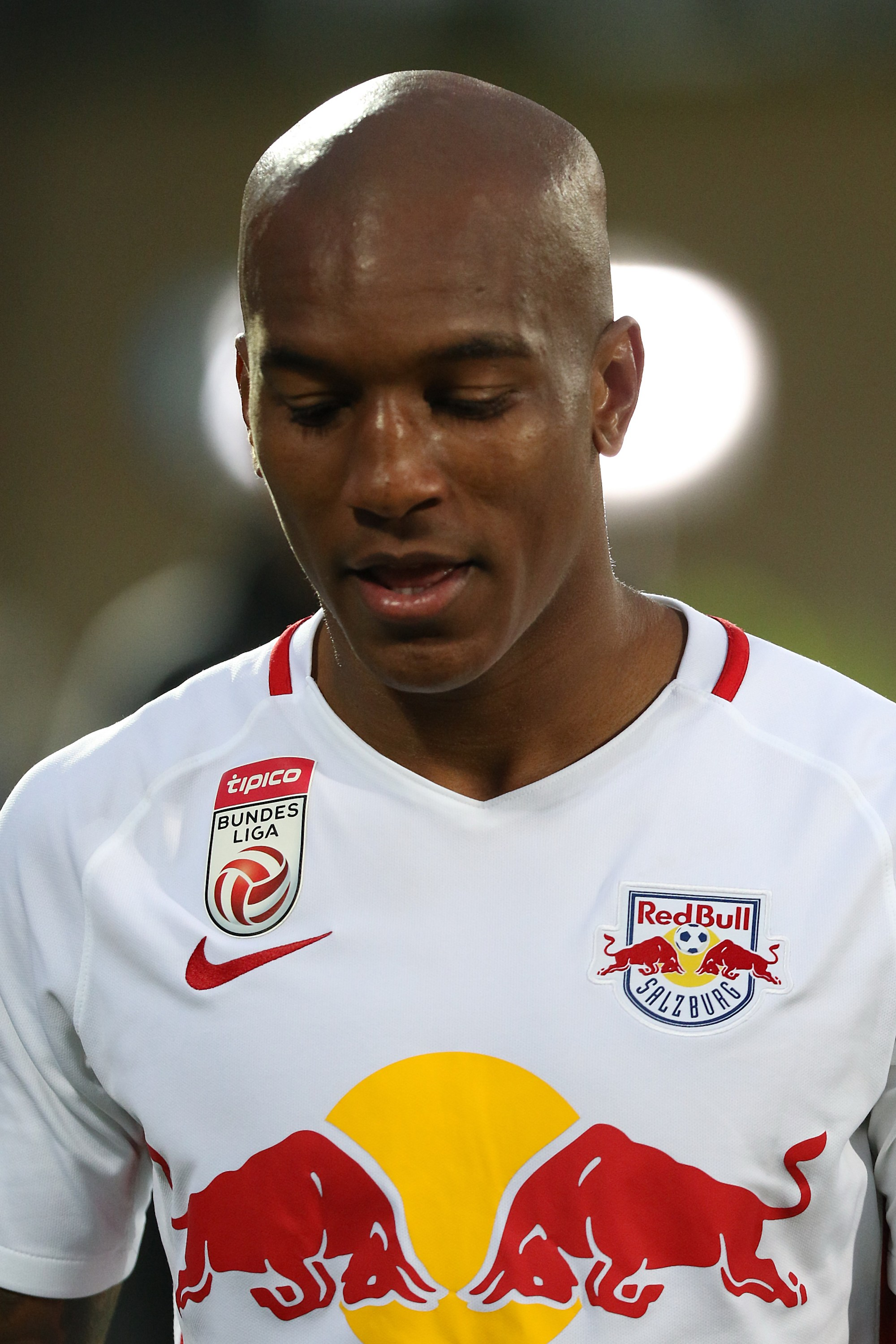 2016–17 Austrian Cup: FC Admira Wacker Mödling (red shirts) vs. FC Red Bull Salzburg (white shirts) at 26. April 2017 in the BSFZ-Arena in Maria Enzersdorf 0:5 (0:2) – The photo shows Andre Wisdom